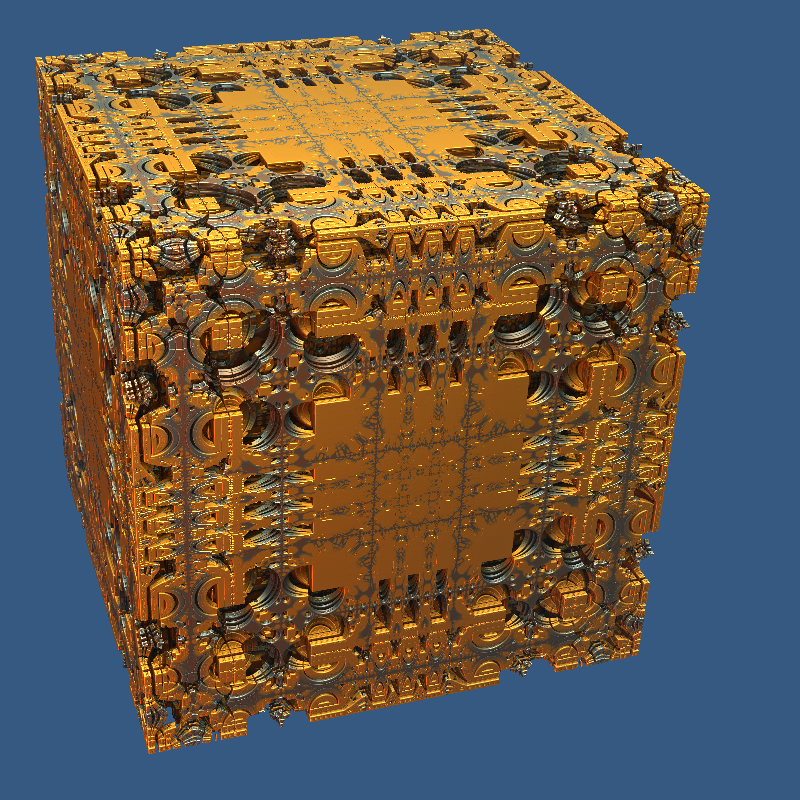 A mandelbox of power 2